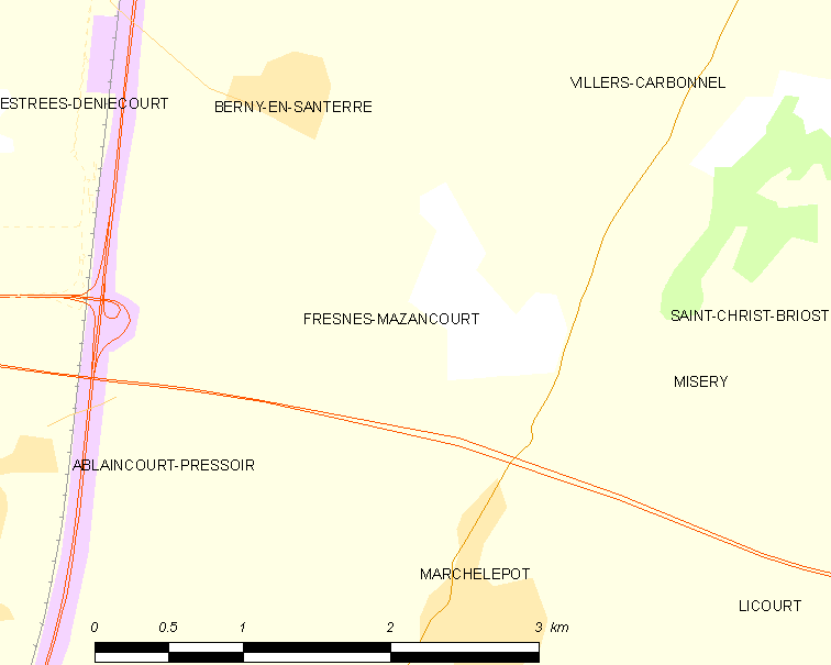 Map of French municipality Fresnes-Mazancourt